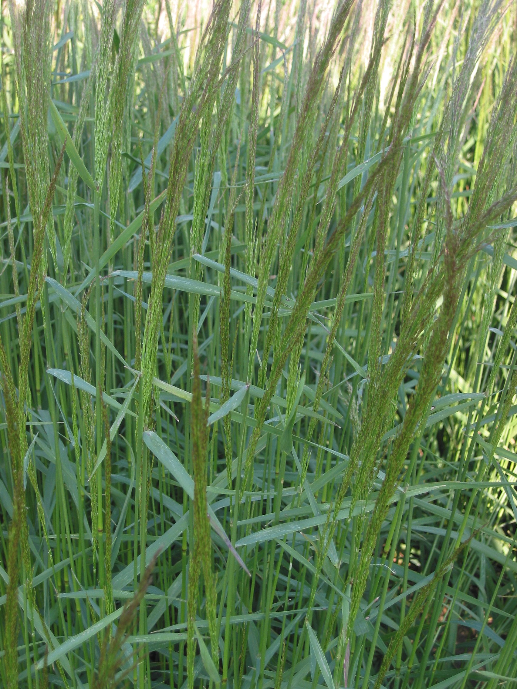 Agrostis gigantea inflorescens